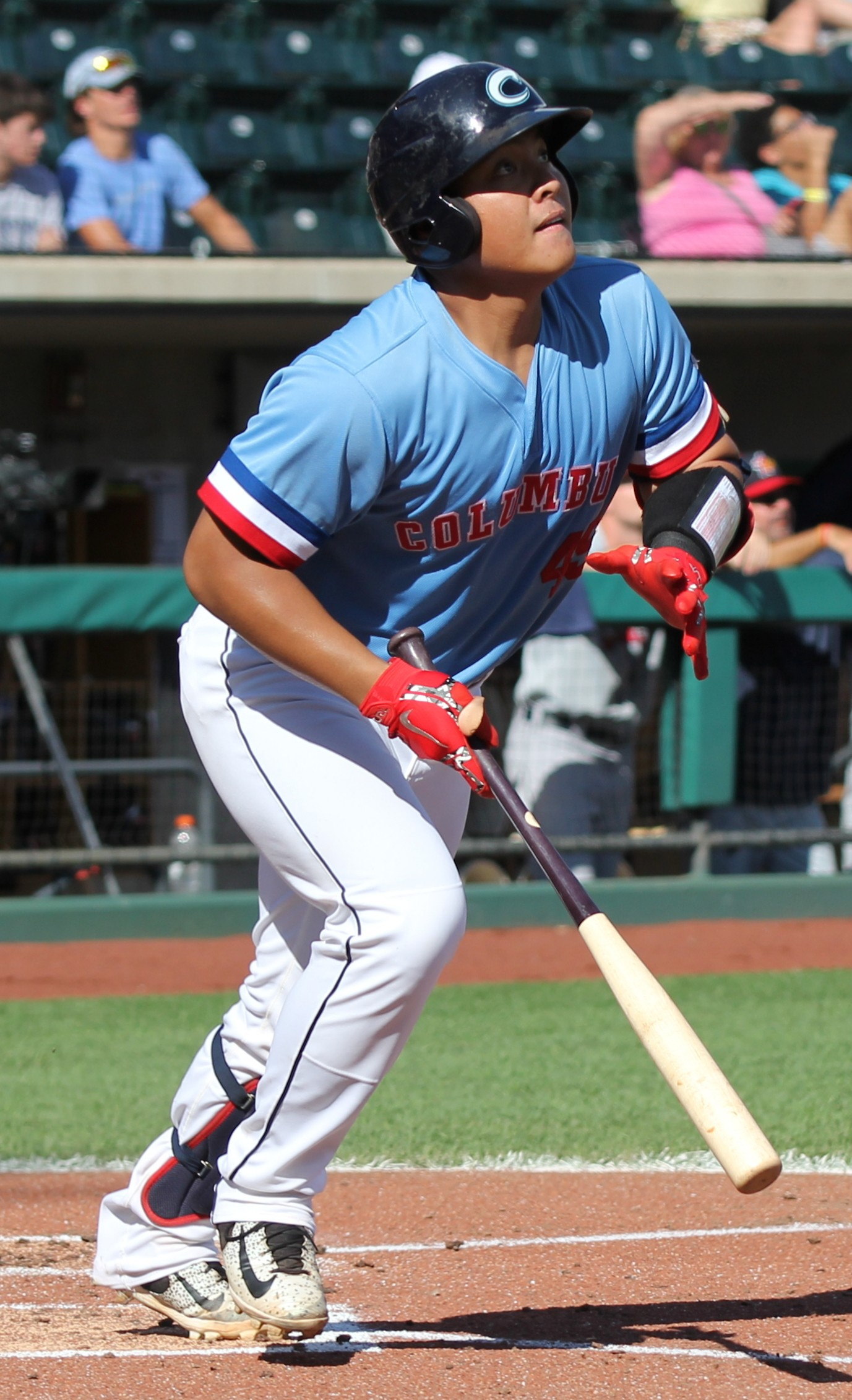 Li Jen Chu in 2018 Clevland Indians AAA Club.